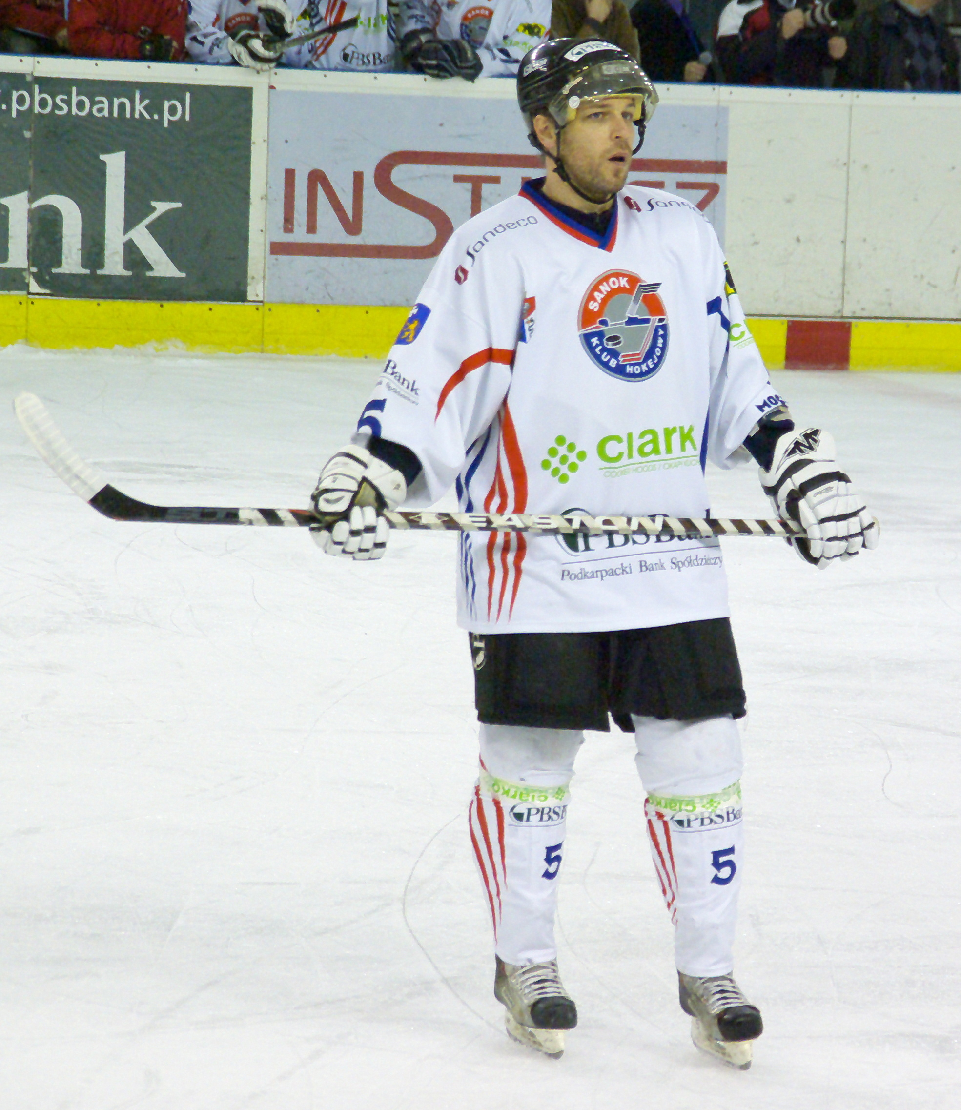 Dmitri Suur during match KH Sanok - MMKS Podhale Nowy Targ 20.03.2011